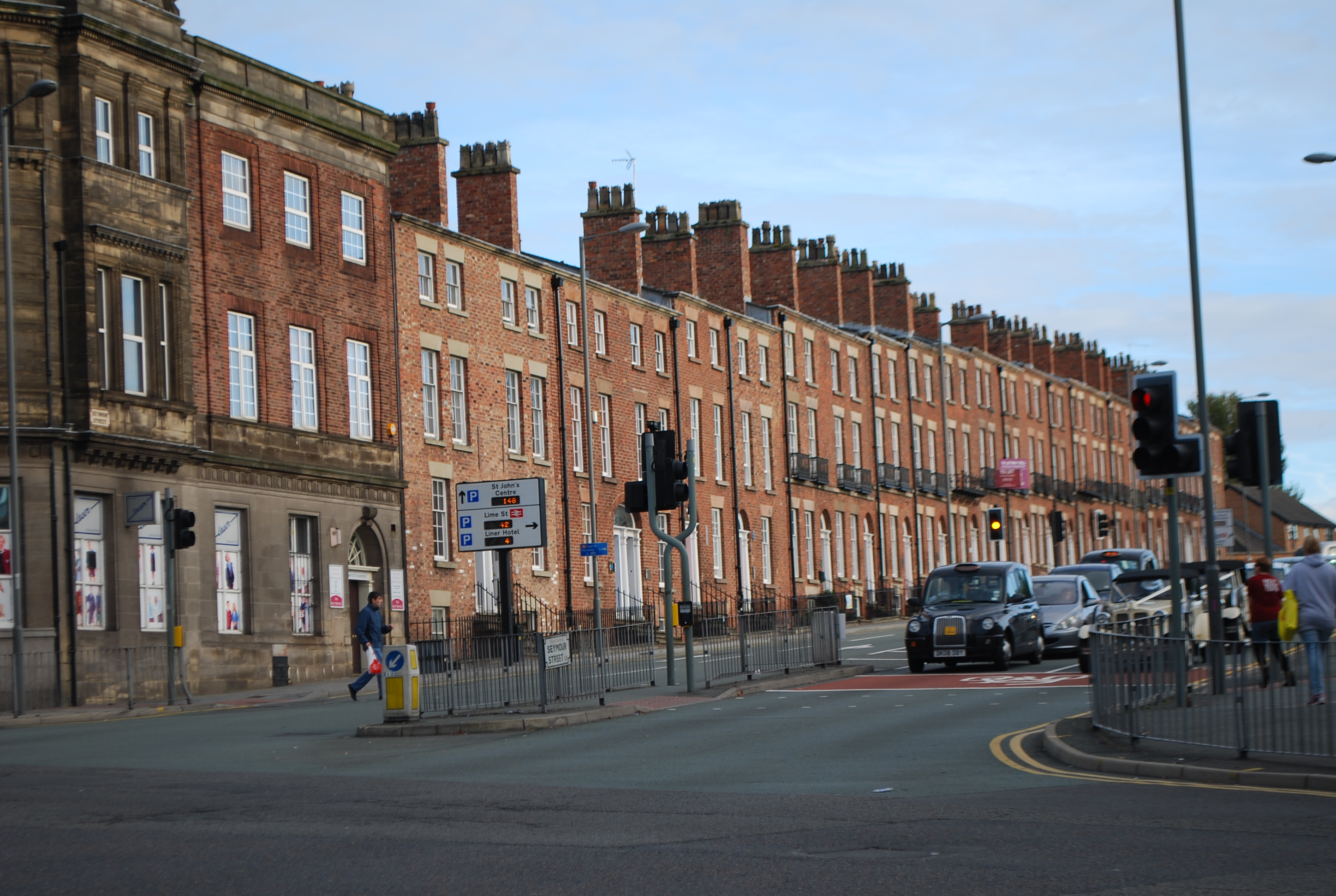 View of Seymour Street from London Road, Liverpool